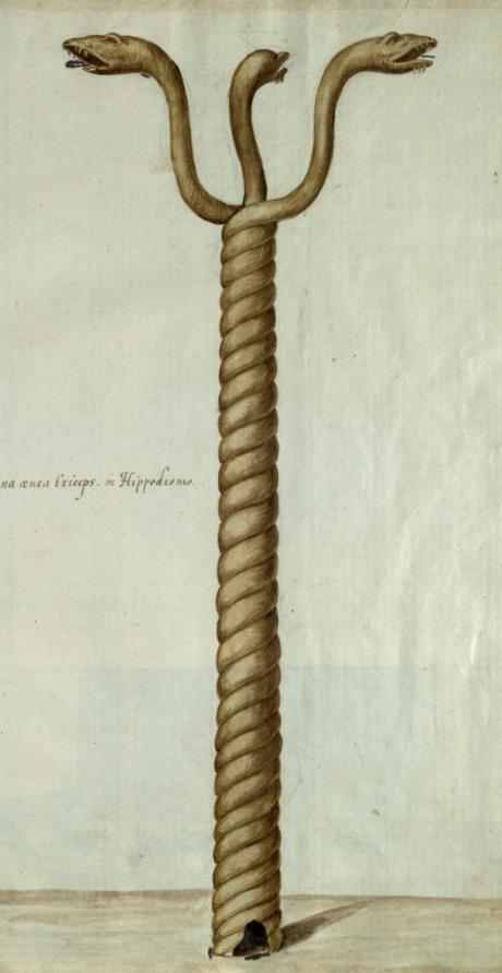 The Serpent Column in Istanbul. Drawing of 1574 from the Freshfield Album (Trinity College Library MS O.17.2). For more details, see : Views of Constantinople: The Freshfield Album online, 1 December 2015.